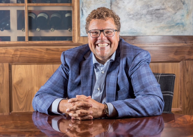 Jimmy John Liautaud after winning Franchise Times' 2017 Dealmaker of the Year award.